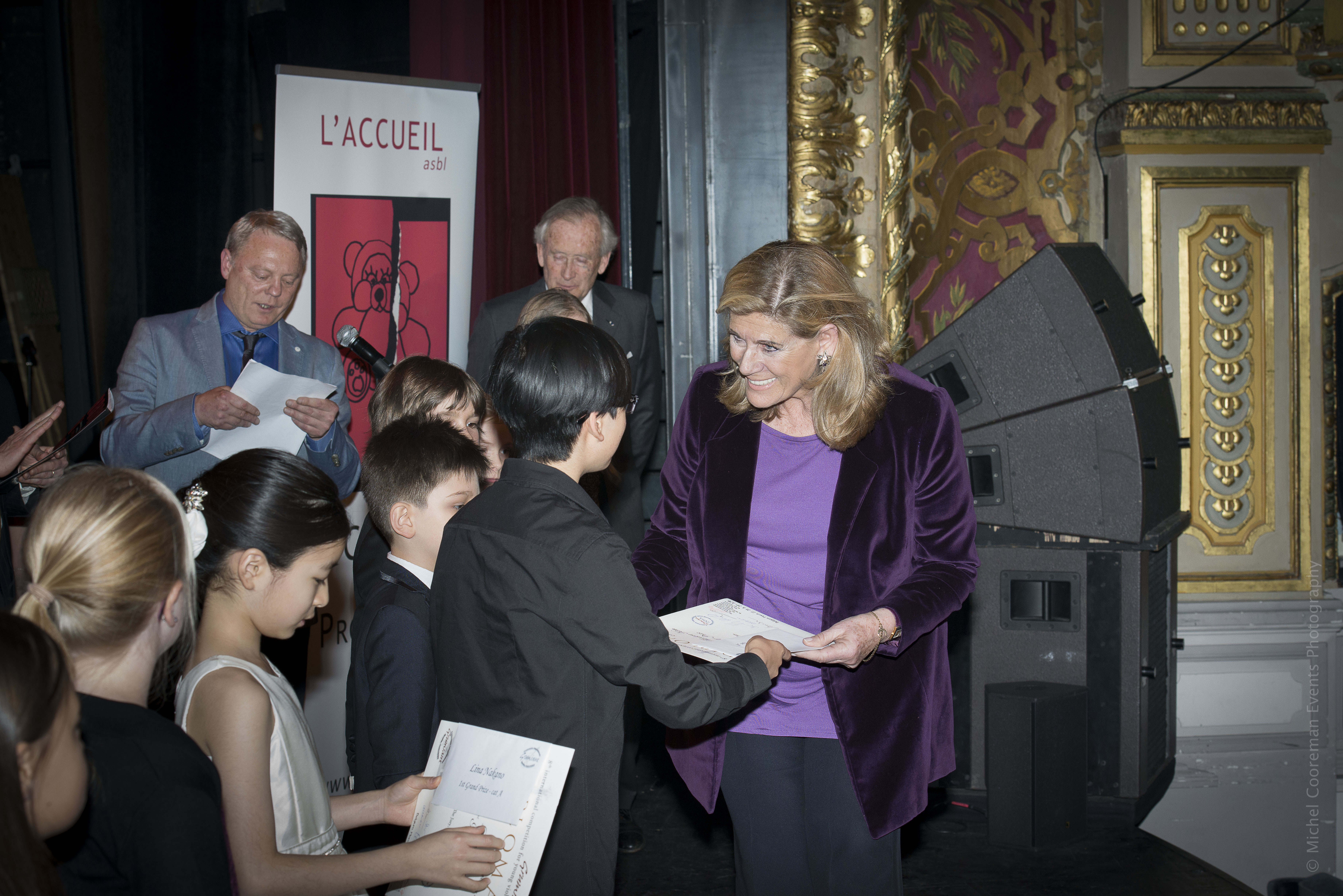 Princess Léa of Belgium in 2015 rewards the winners